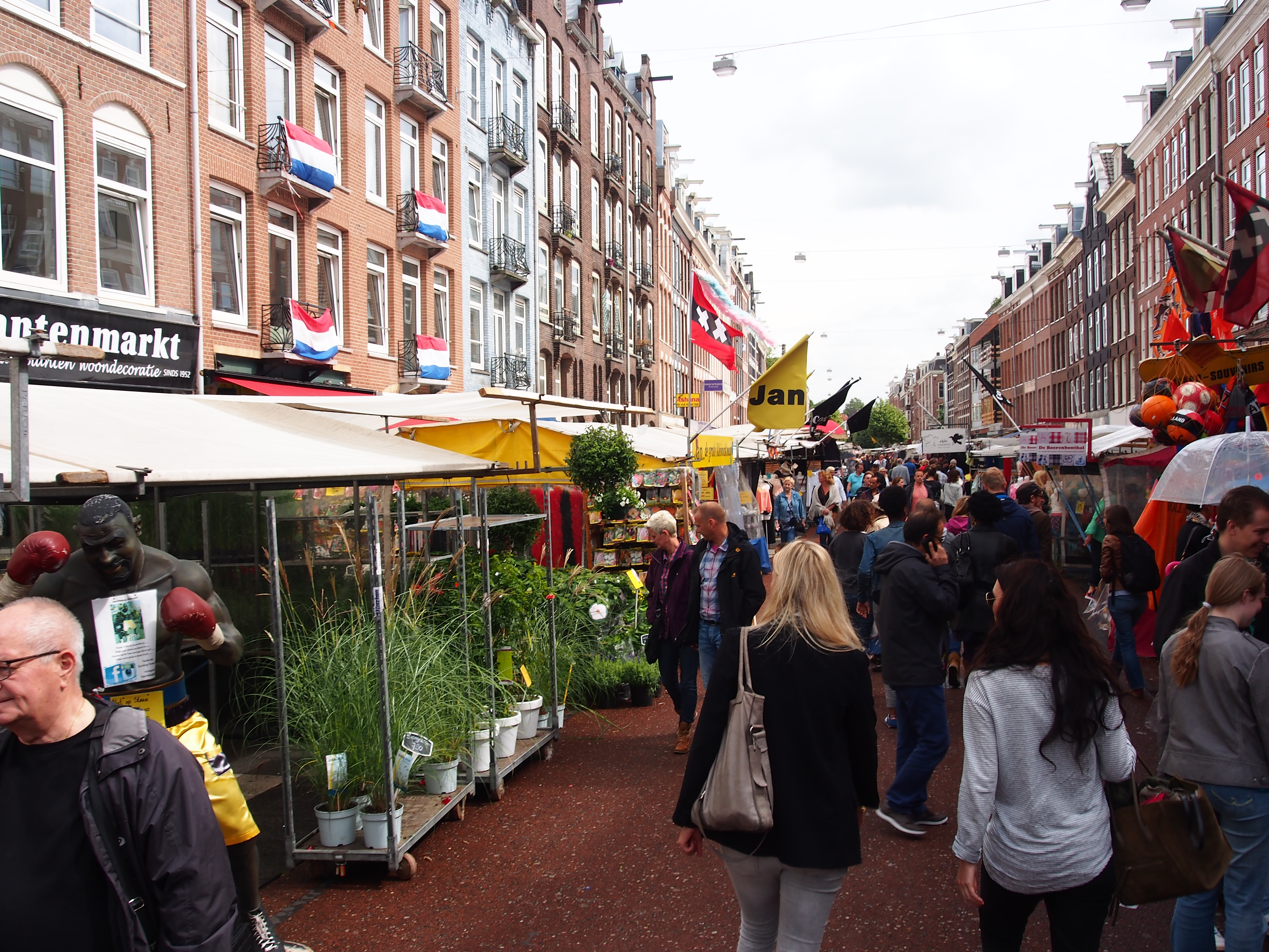 Photographed at Amsterdam, The Netherlands.